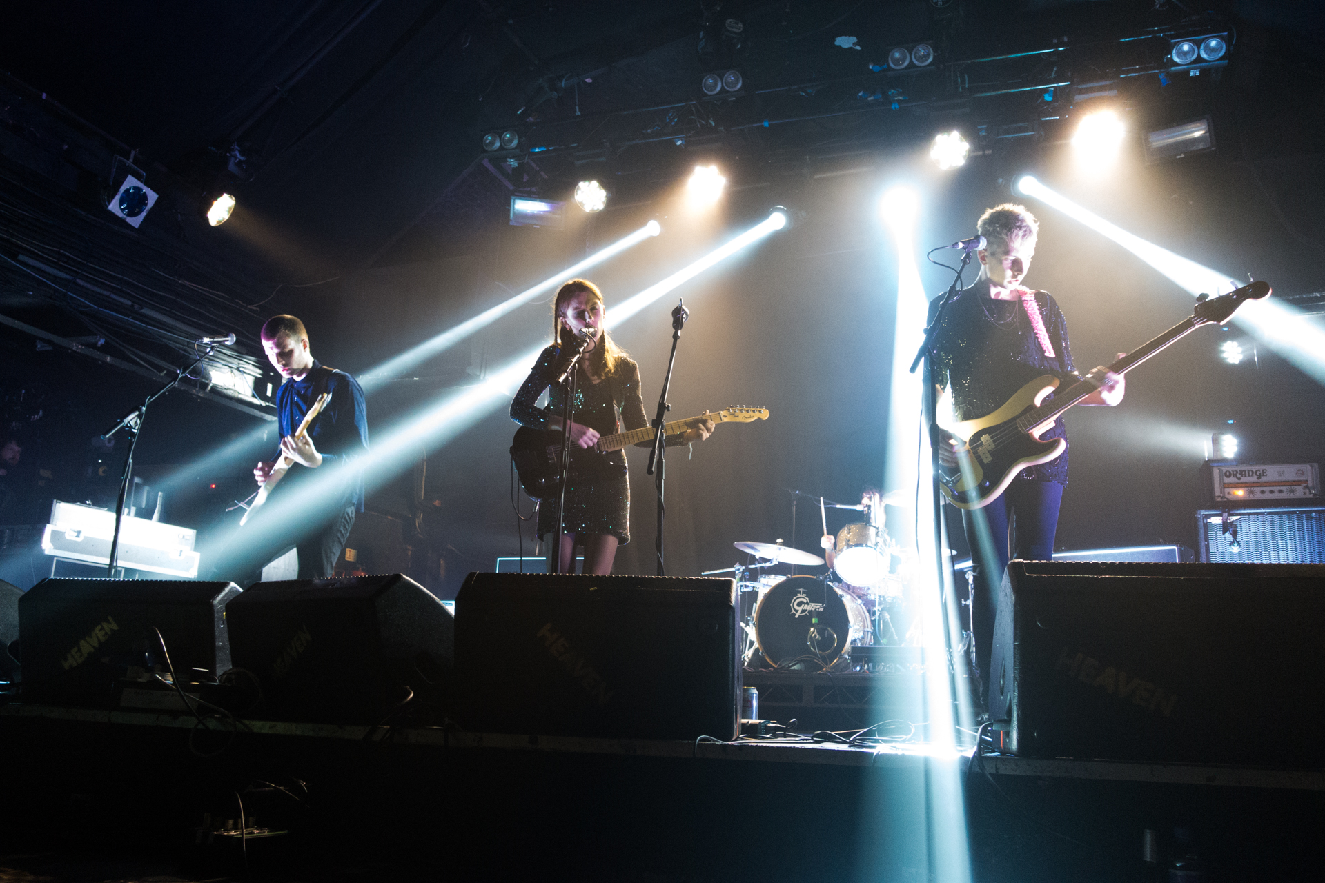 Wolf Alice live at Heaven 2014